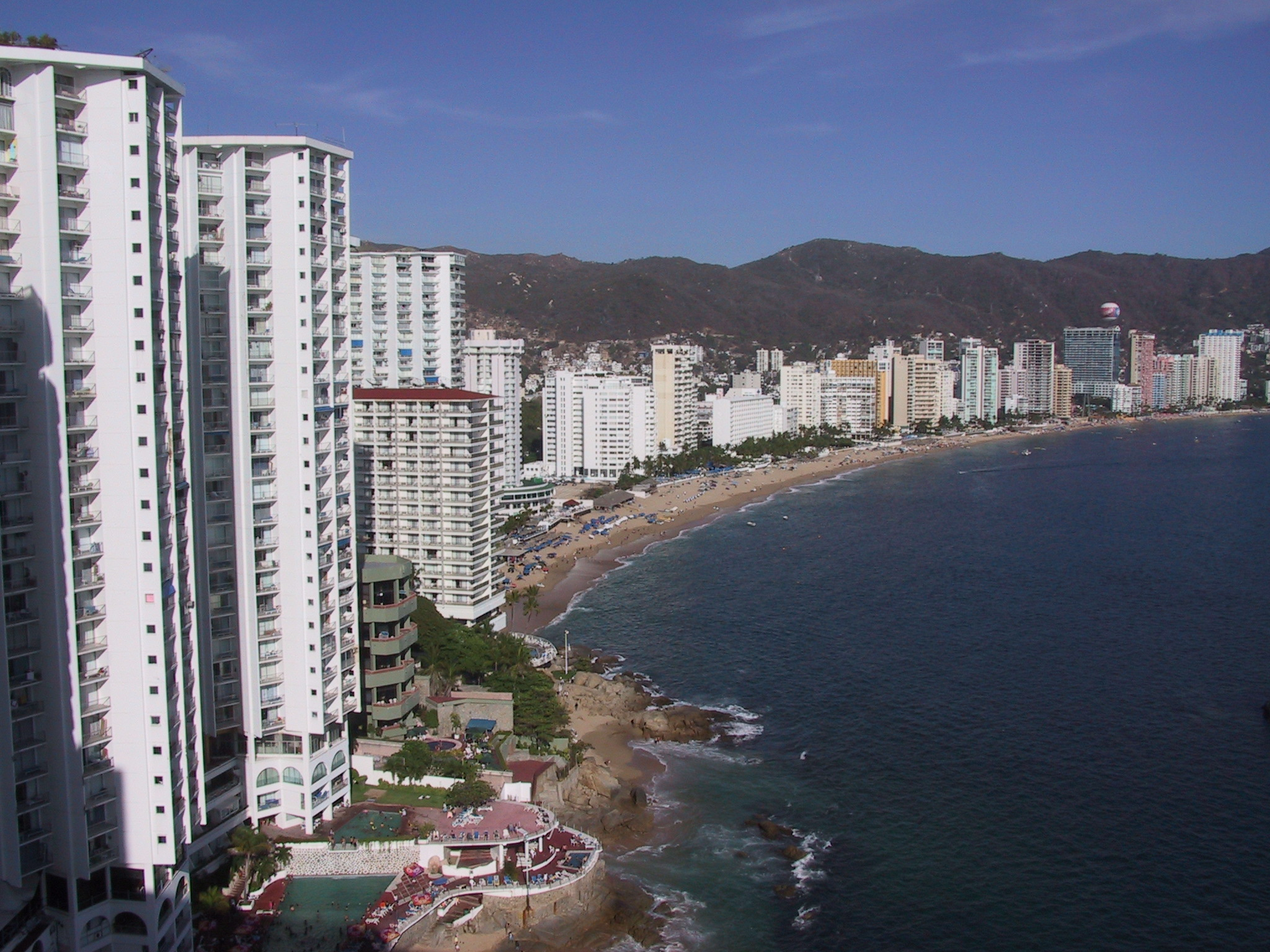 Beach at Acapulco, Mexico